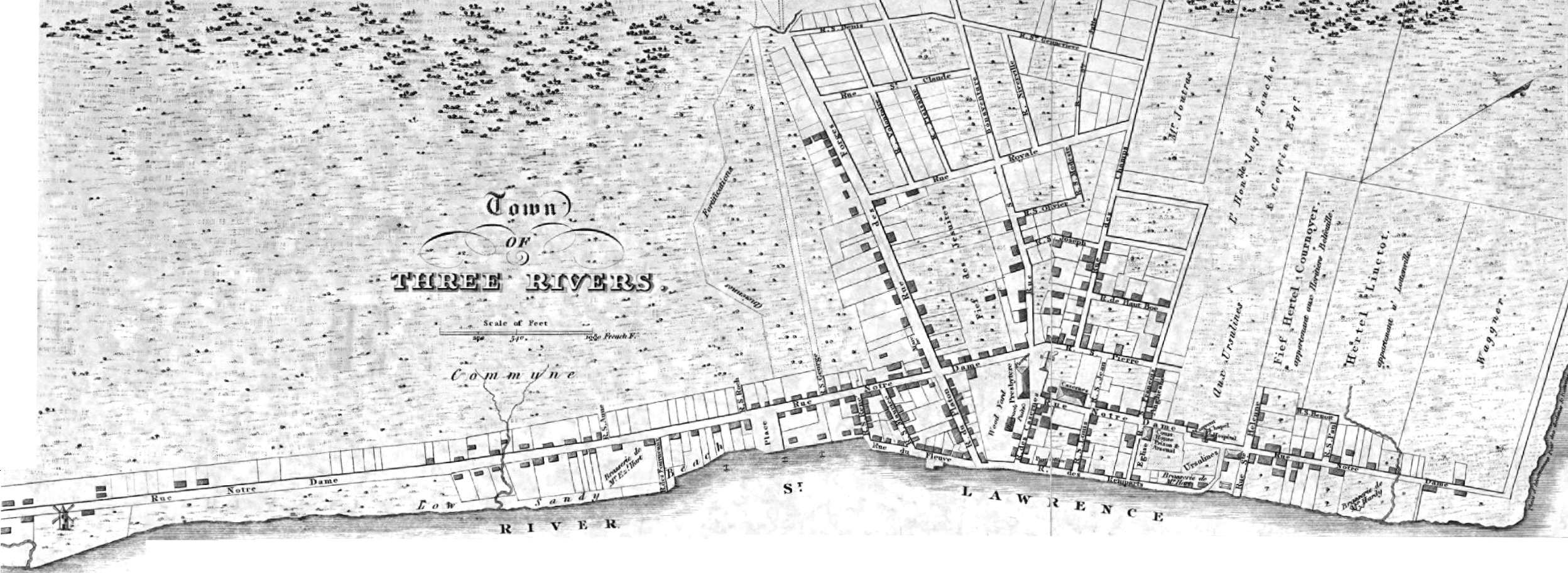 To his Royal Highness's George Augustus Frederick, Prince of Wales, Duke of Cornwall, &c. &c. &c. Prince Regent of the United Kingdom of Great Britain & Ireland; this topographical map of the province of Lower Canada (cartouche Trois-Rivières)